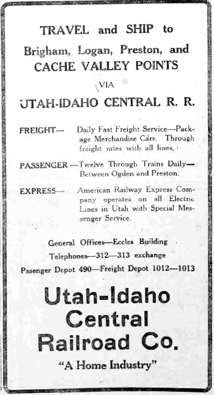 Newspaper ad for the Utah-Idaho Central Railroad, showing Railway Express service.